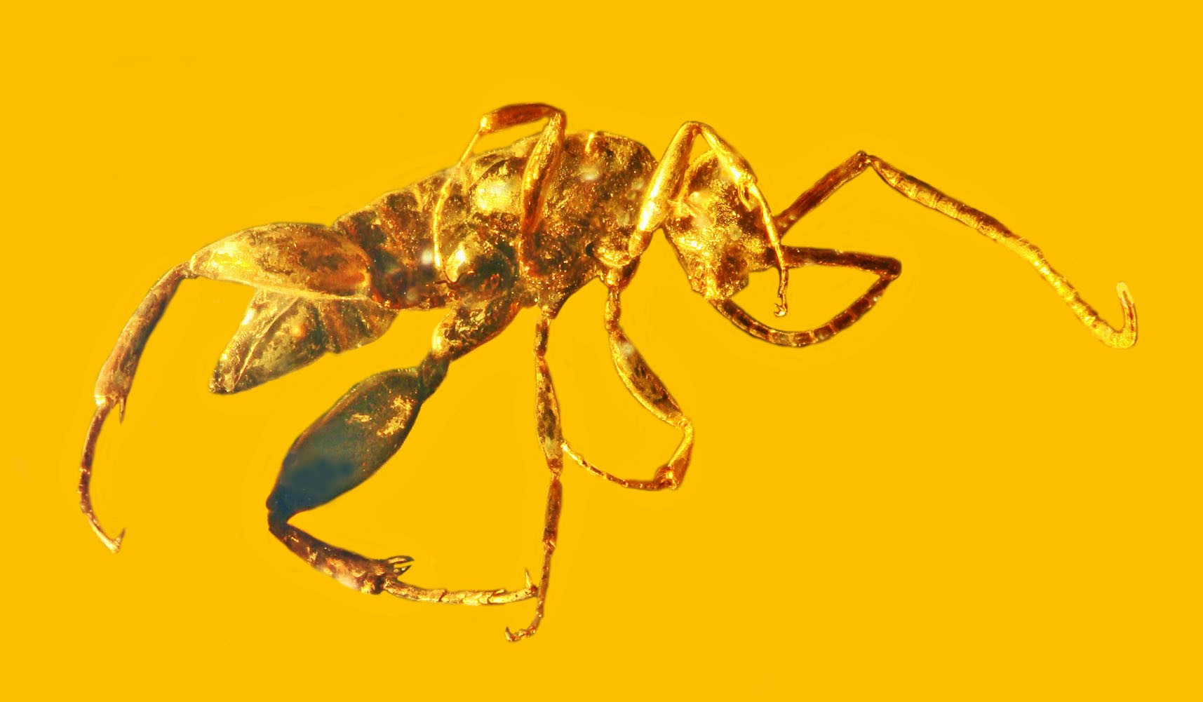 Aptenoperissus burmanicus, a wingless wasp, Burmese amber 99 million years old. Holotype and only known specimen in a newly-created family of Hymenoptera. (Photo by George Poinar, Jr., courtesy of Oregon State University)